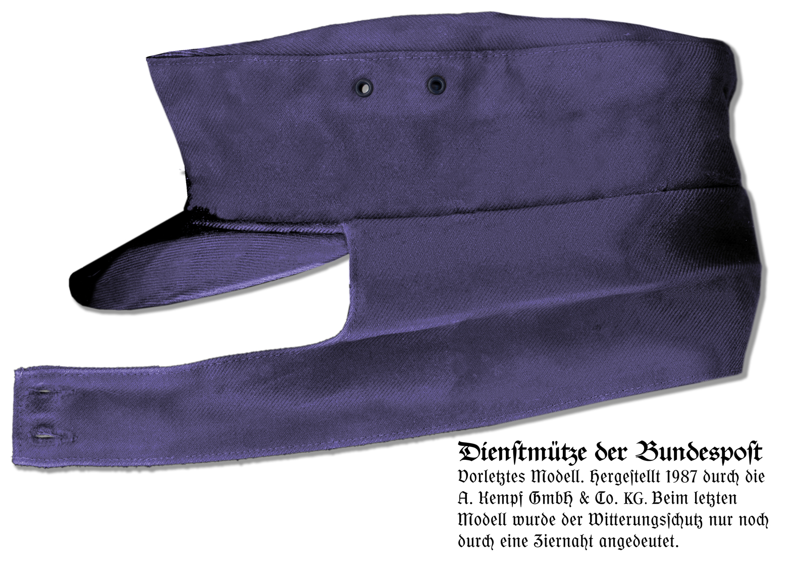 Cap of the German Bundespost